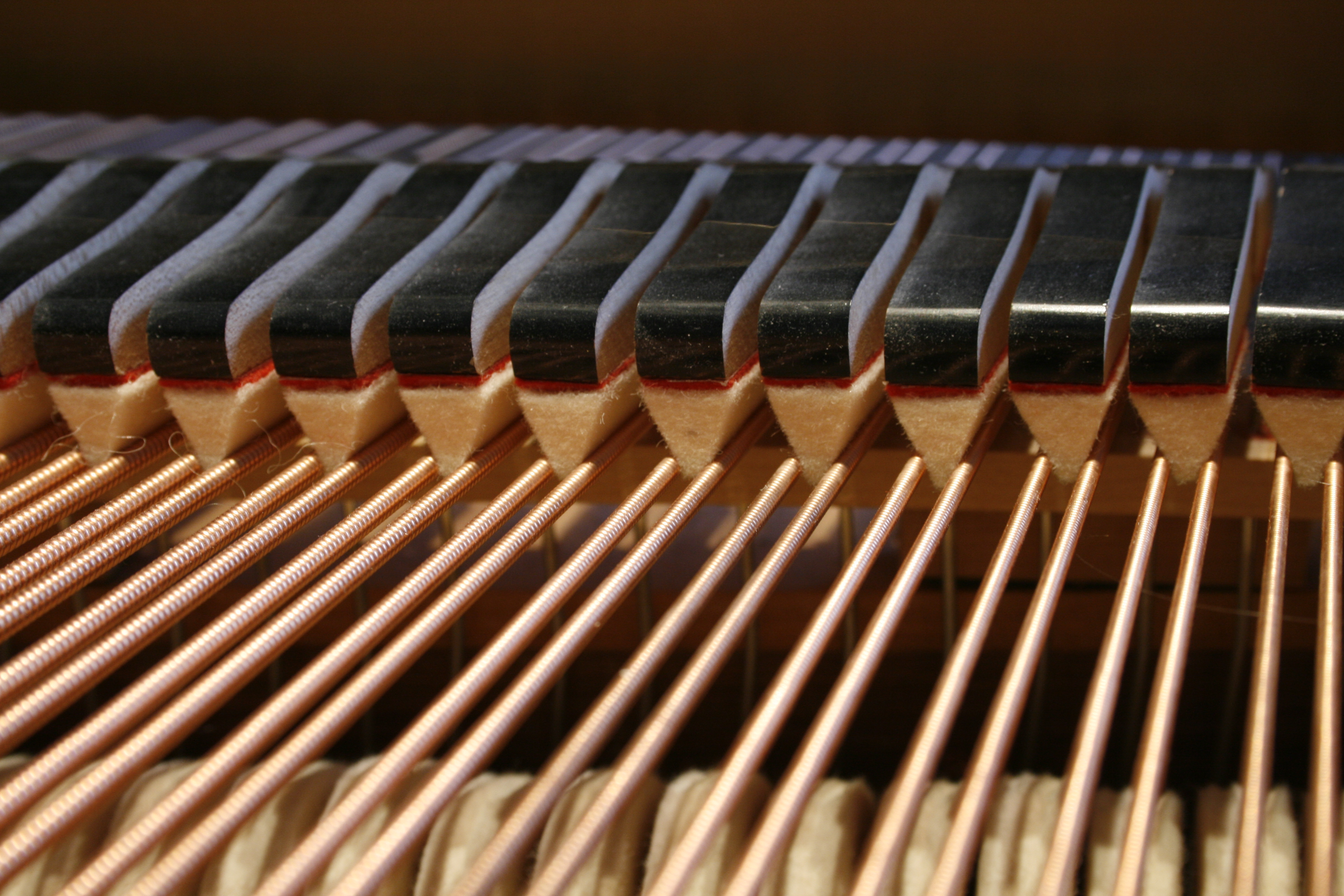 See medium size on black